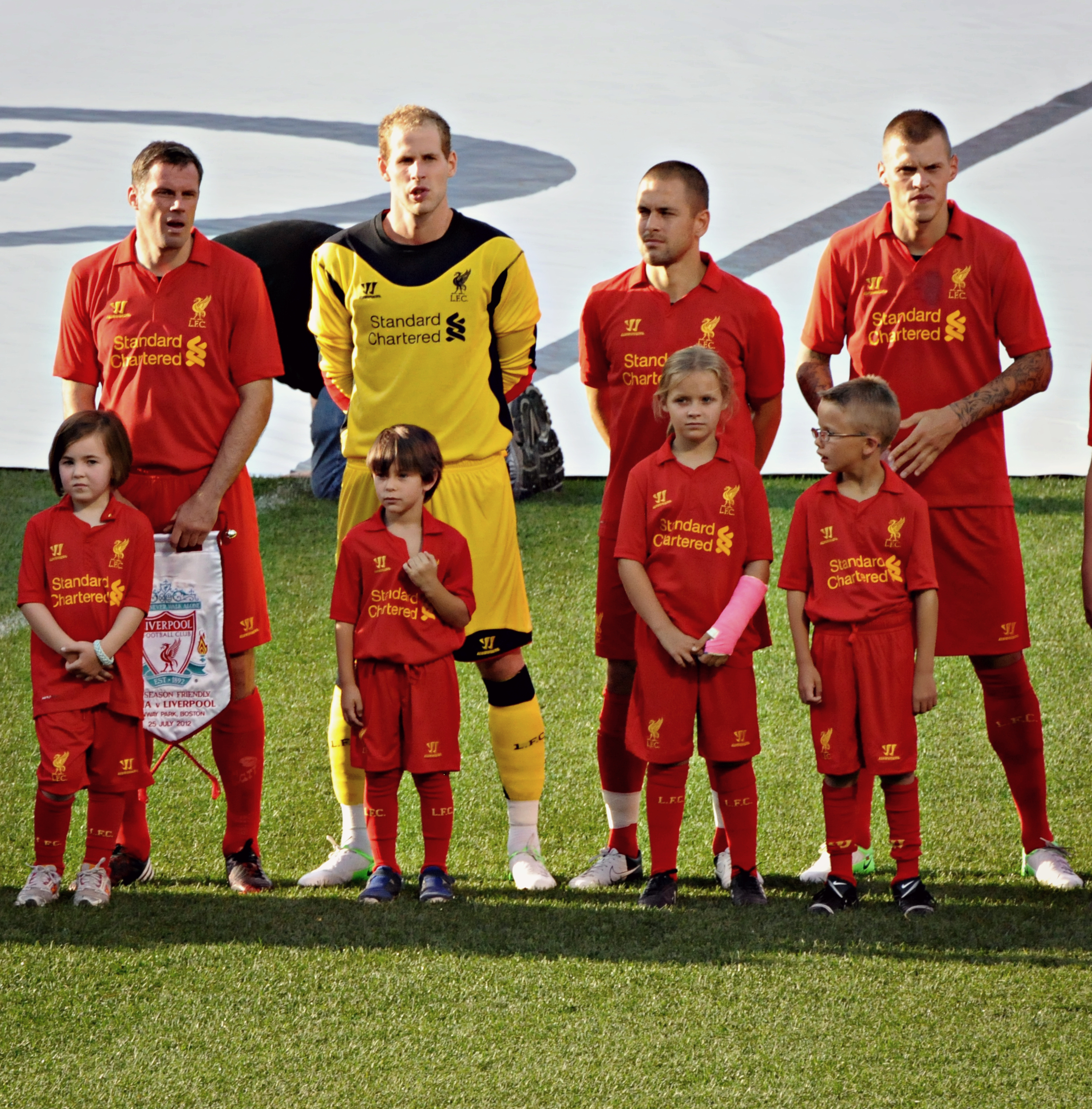 LFC vs Roma @ Fenway Park (Boston, Massachusetts)